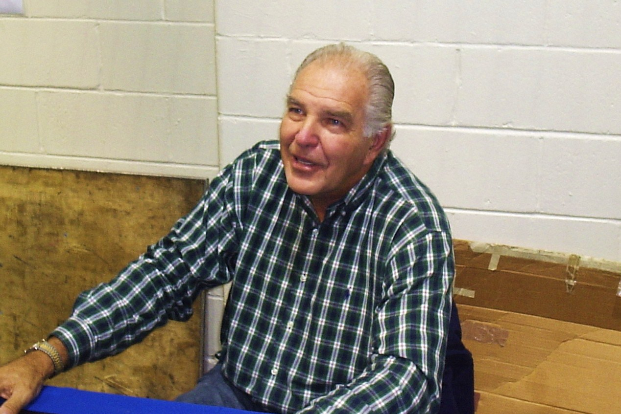 Ed Kranepool at a baseball show in 2007